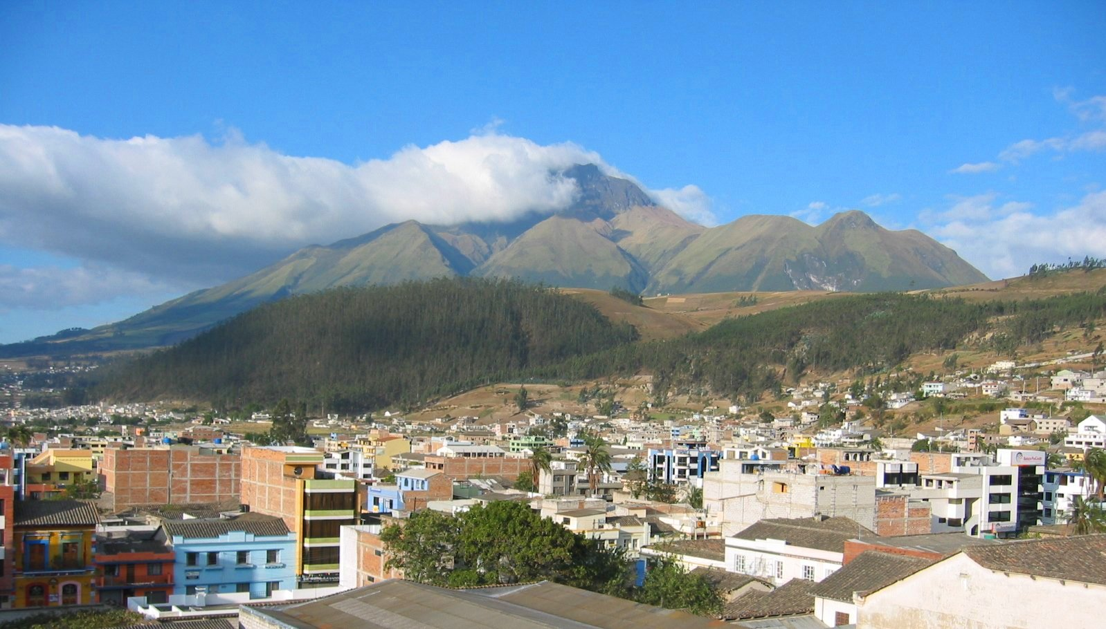 The volcano Imbabura in the background, with the town of Otavalo on the floor of the valley. Runa Simi: Otavalo llaqta sawsaqhichwapi, Imbabura urquwan qhipanpi